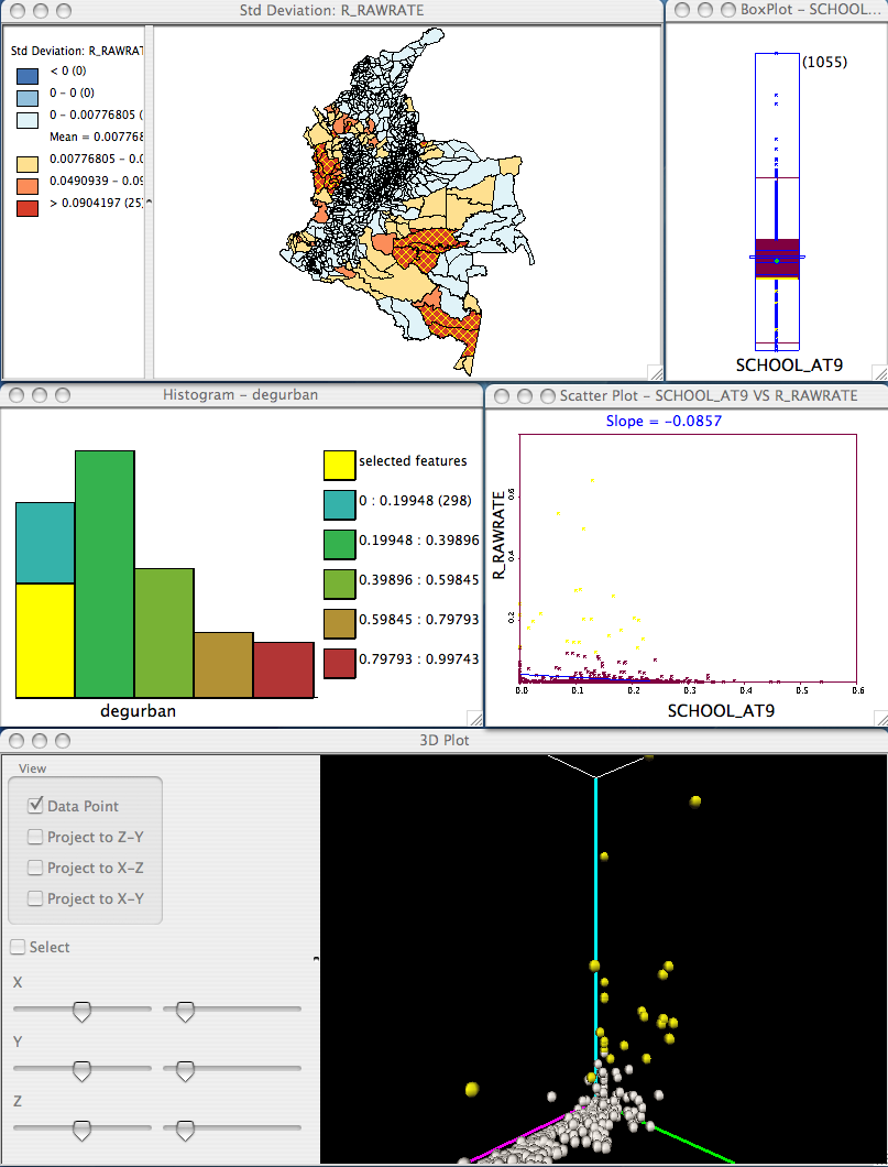 Multiple views linking in GeoDA.